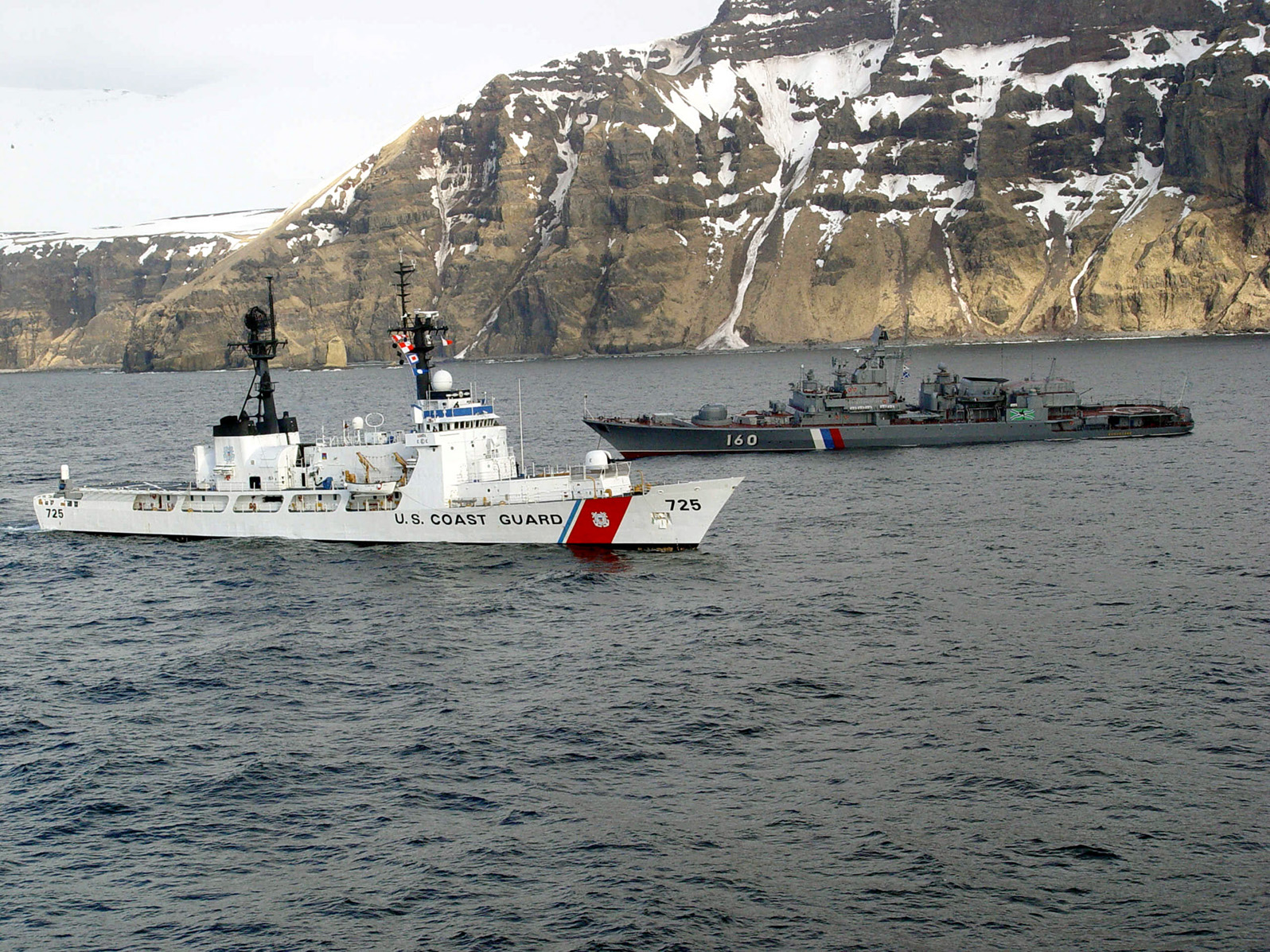 KODIAK, Alaska (April 10, 2004)--Coast Guard Cutter Jarvis rendezvous with Russian vessel, FSS Vorovsky near Kodiak, Alaska during an Alaskan patrol.